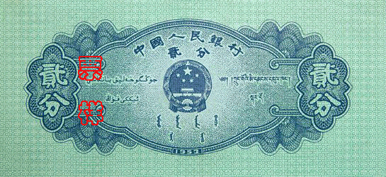 Back of second series 2 fen renminbi